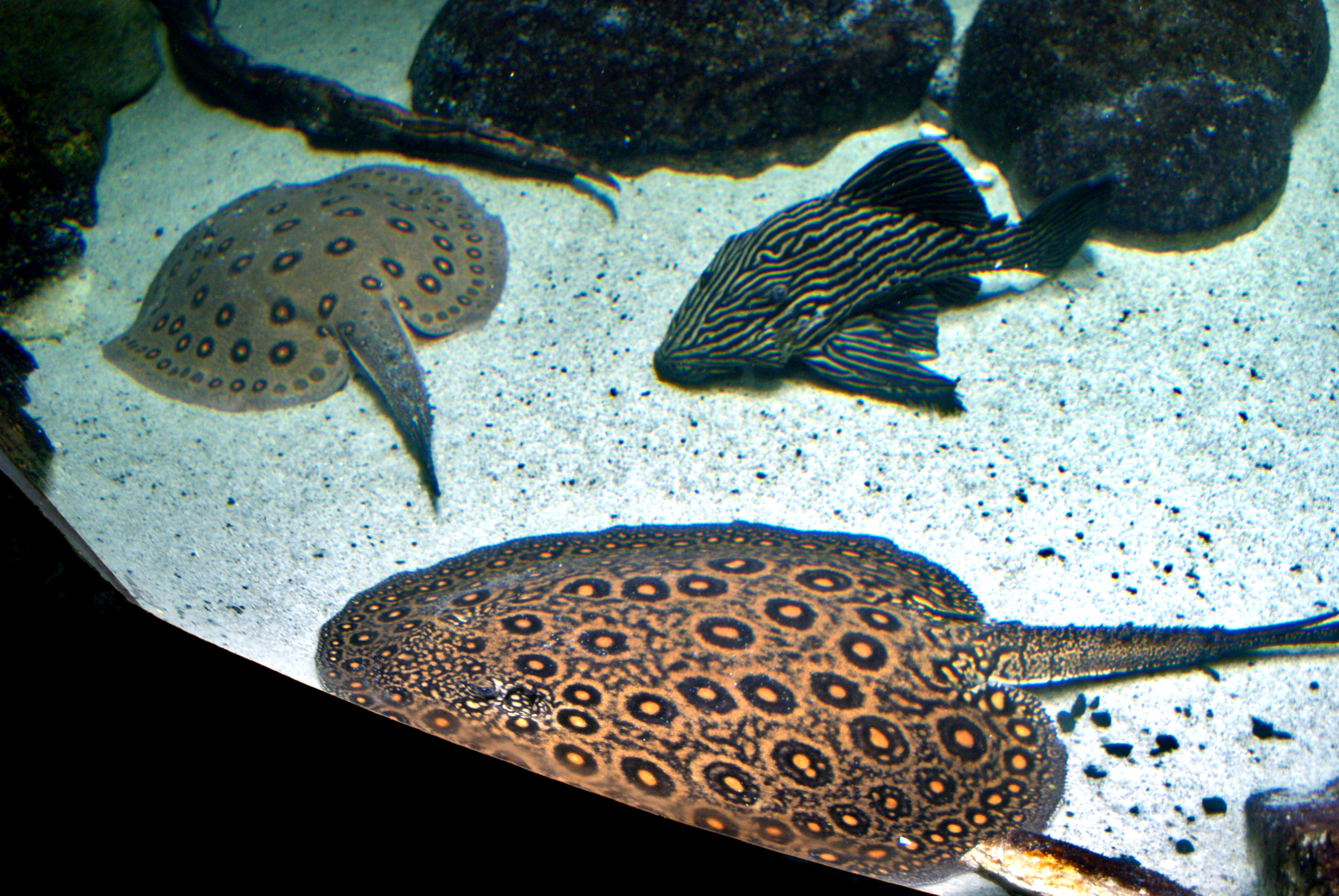 Panaque nigrolineatus and Potamotrygon motoro in Tropicarium-Oceanarium Budapest